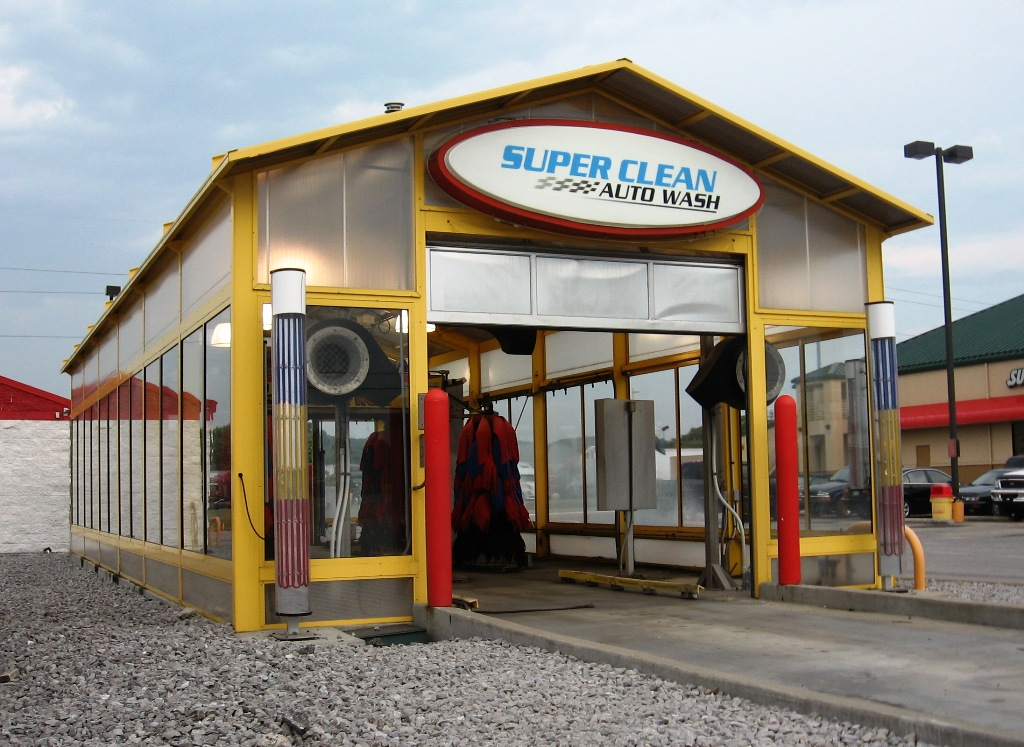 A typical car wash found in Tennessee and nearby states.